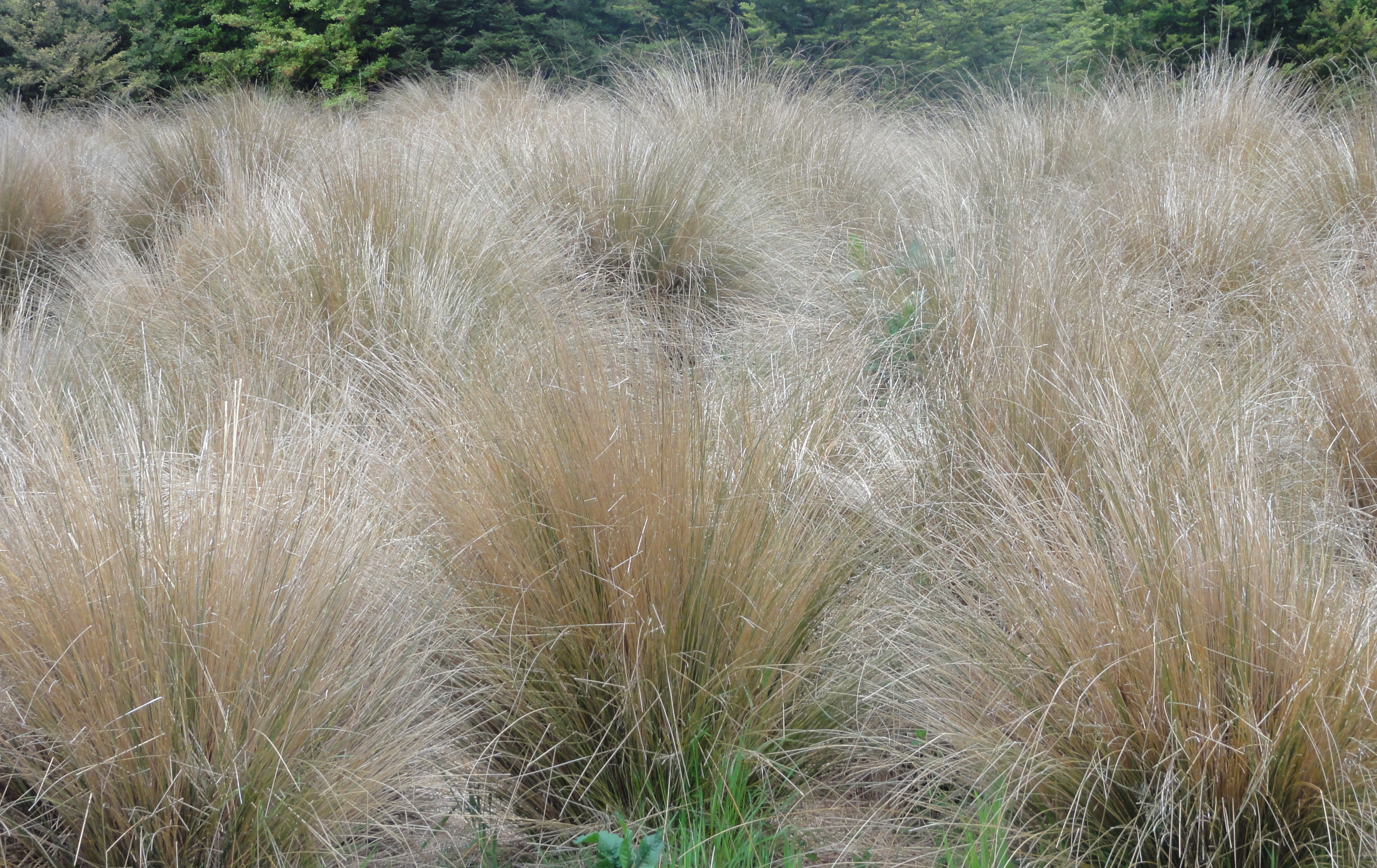 "Tussock Grass" in New Zealand, species unknown